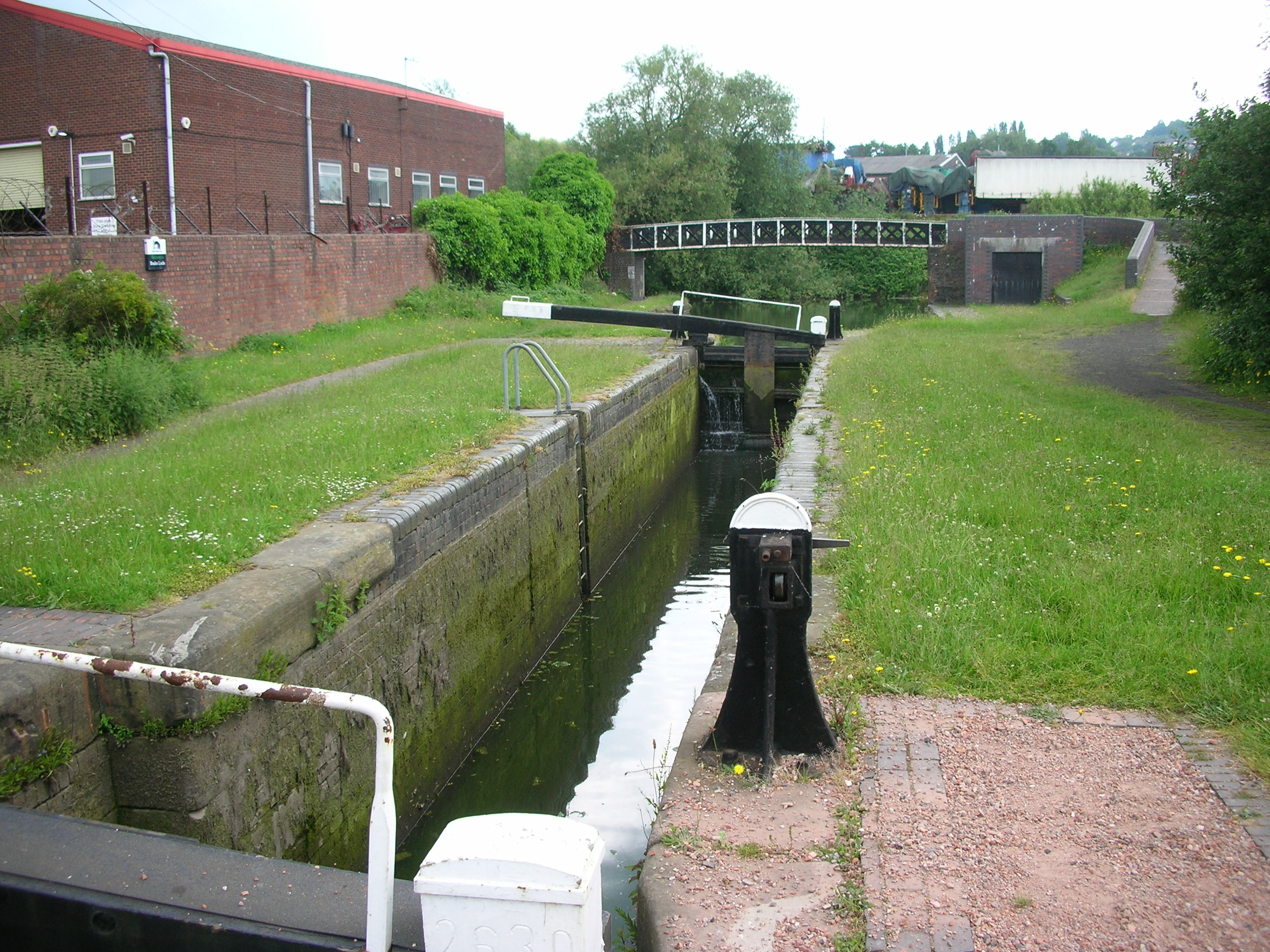 The top Brades staircase lock and, behind the iron roving bridge, Brades Hall Junction (meeting the BCN Old Main Line) on the Gower Branch Canal in Tividale, West Midlands, England. Photographed by me 13 June 2007. Oosoom